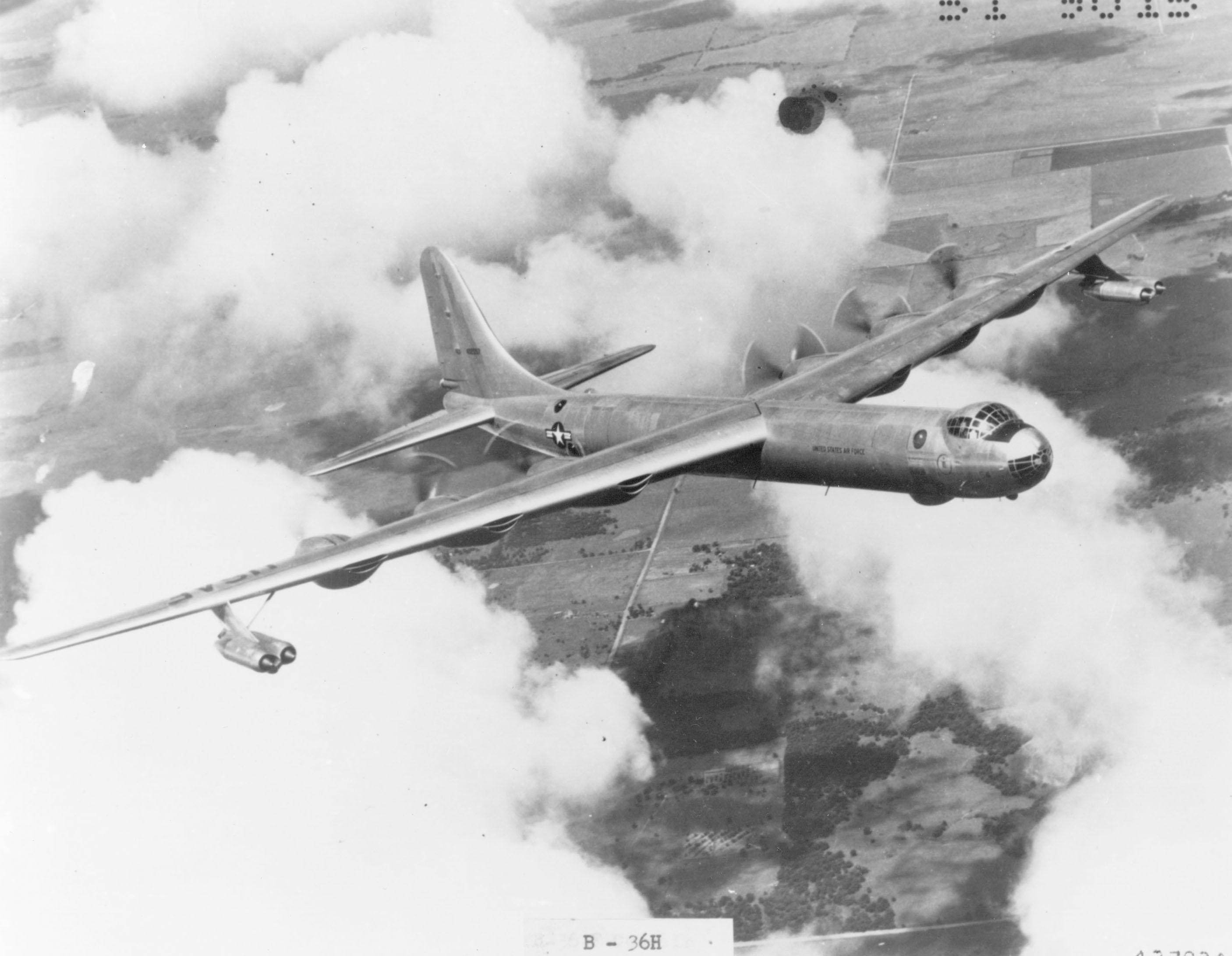 A B-36H bomber